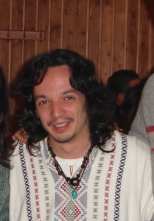 Los Delinquentes, Spanish singer in Jerez (Andalusia, Spain)